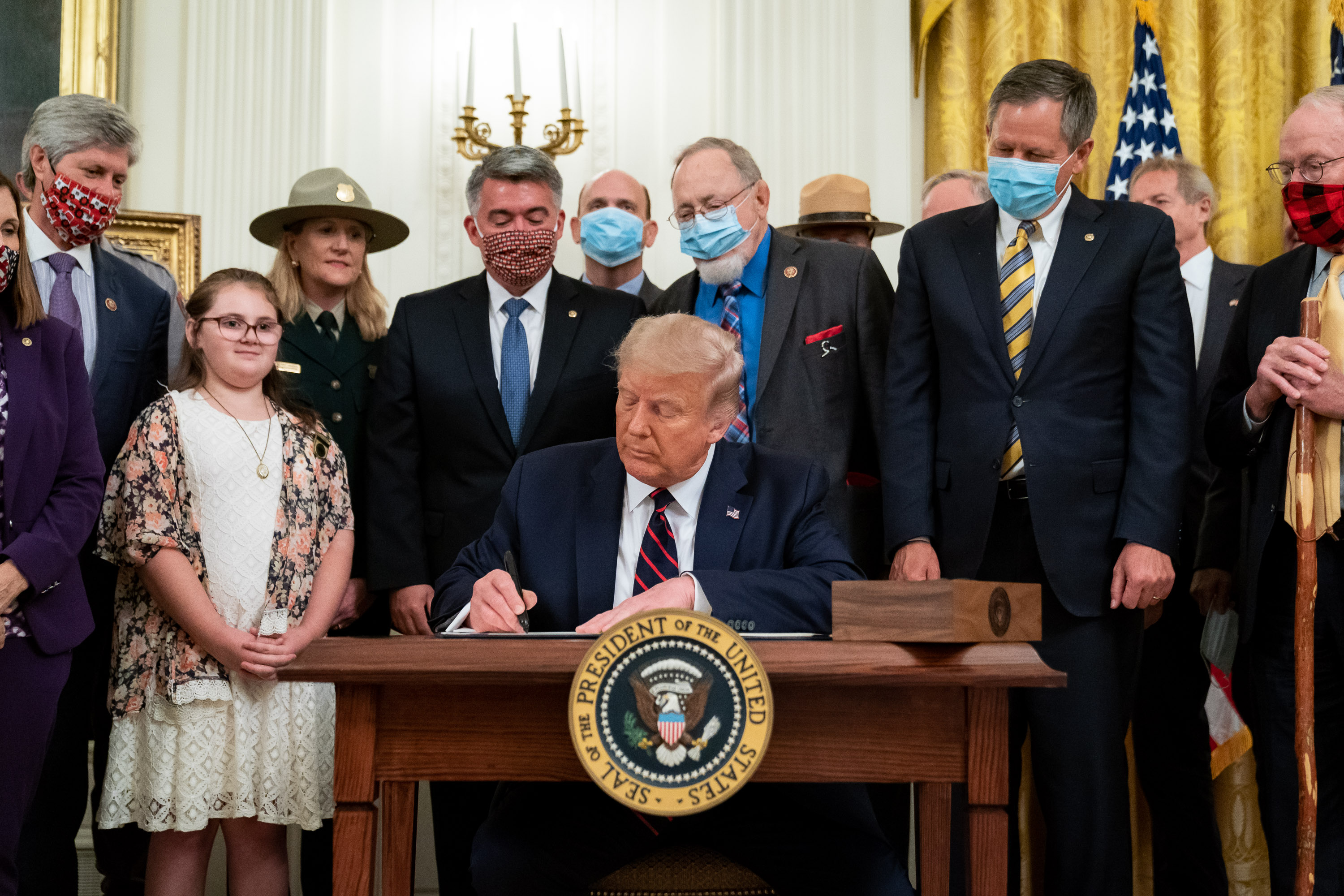 President Donald J. Trump signs H.R. 1957- The Great American Outdoors Act Tuesday, August 4, 2020, in the East Room of the White House. (Official White House Photo by Tia Dufour)